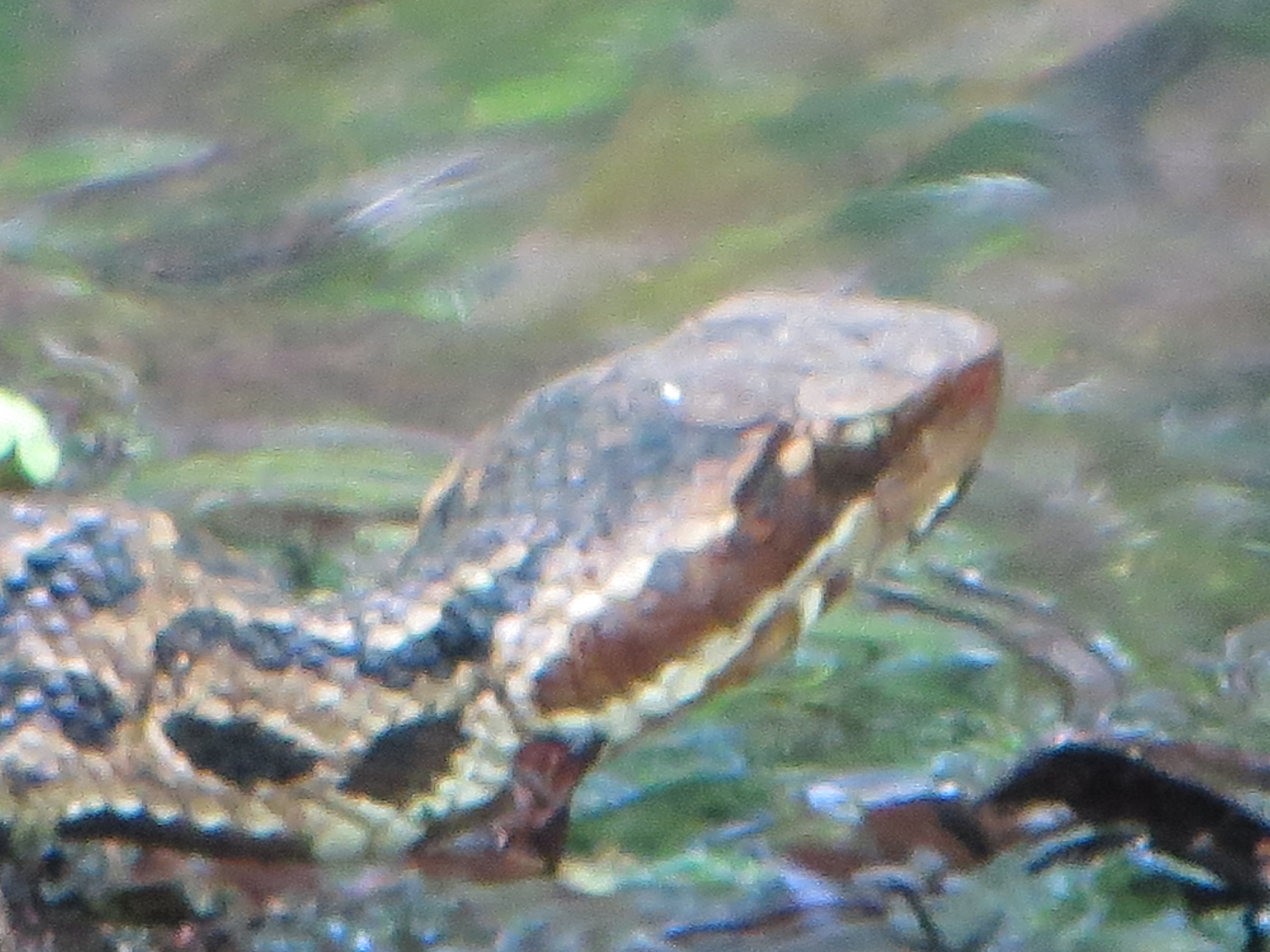 Agkistrodon piscivorus piscivorus, detail of head